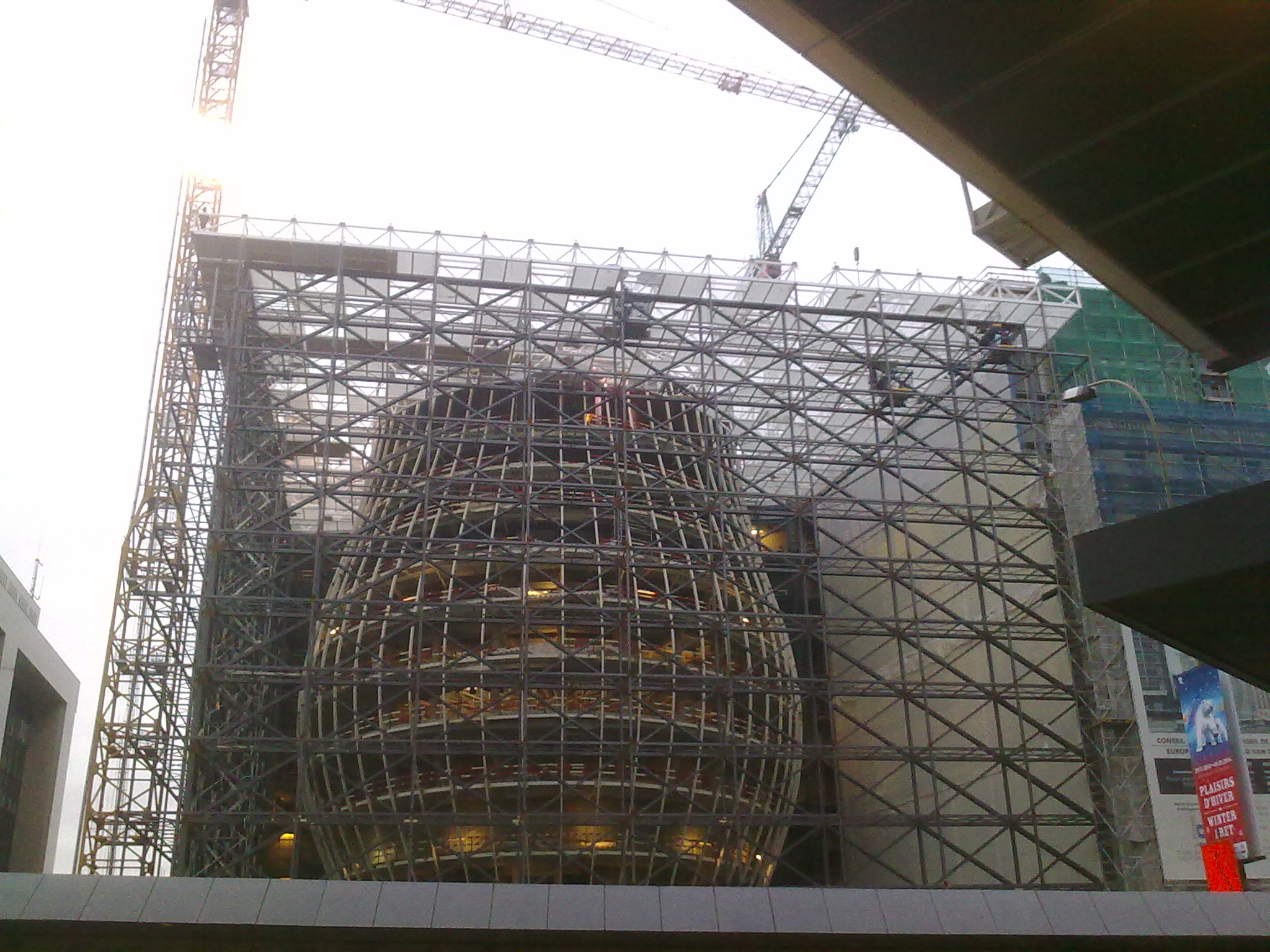 Extension of the Council of the European Union Headquarters, Brussels.Project designed and executed by : Architect Philippe Samyn jointly with "Studio Valle Progettazioni" and "Buro Happold Limited engineers".